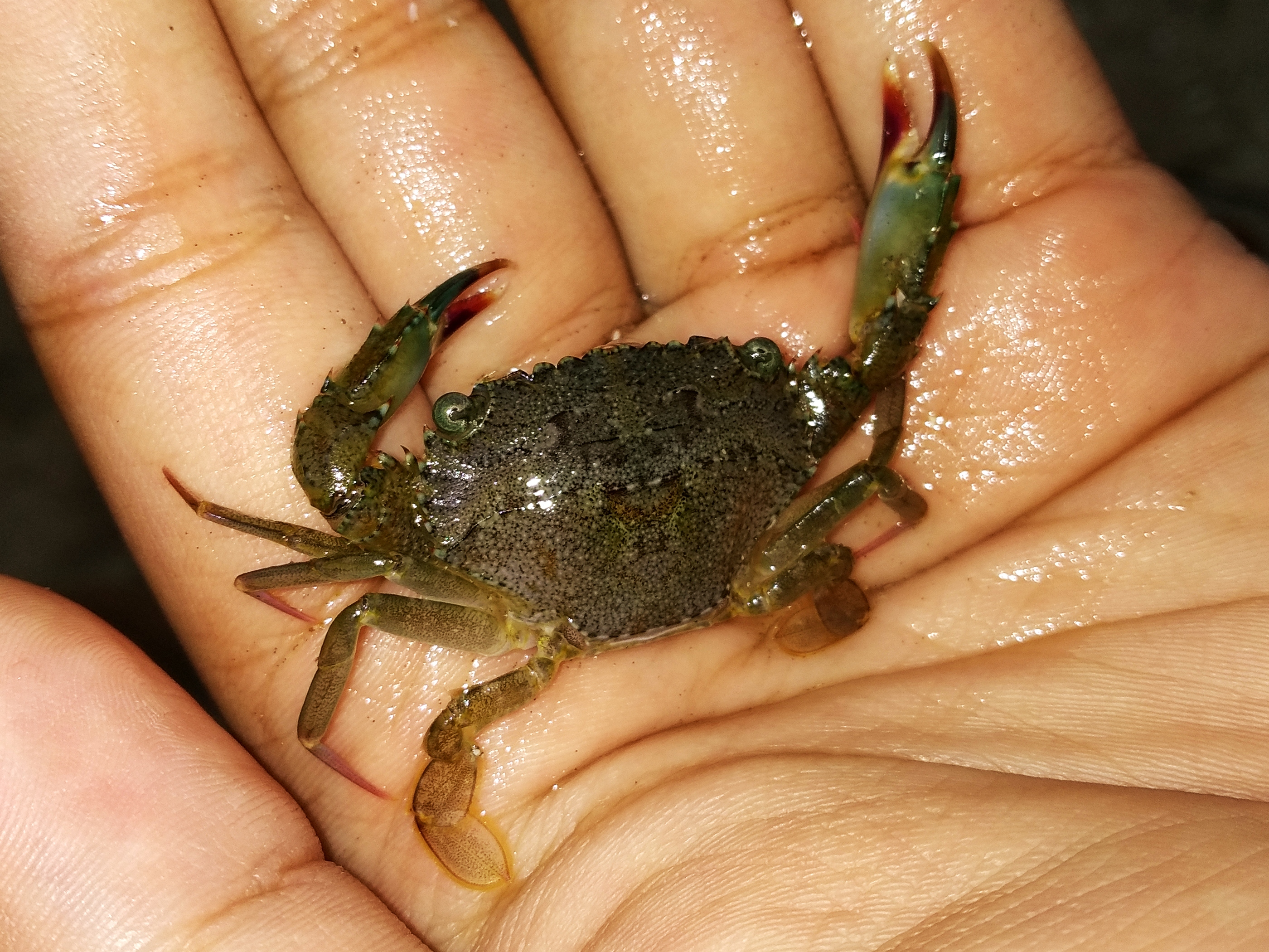 Powder blue-clawed swimming crab (Thalamita crenata); male, ca. 2.5cm CL & 4cm CW. From Pandeglang, Banten, Indonesia.